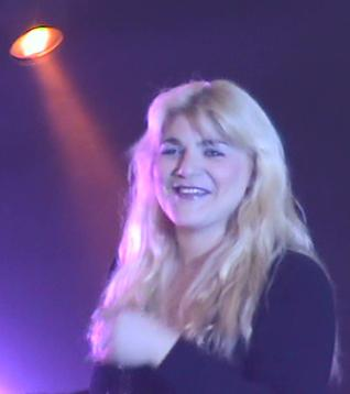 Photograph taken in Lobbes, Belgium on 10th June 2011 during a concert following the release of her album "Make Up"